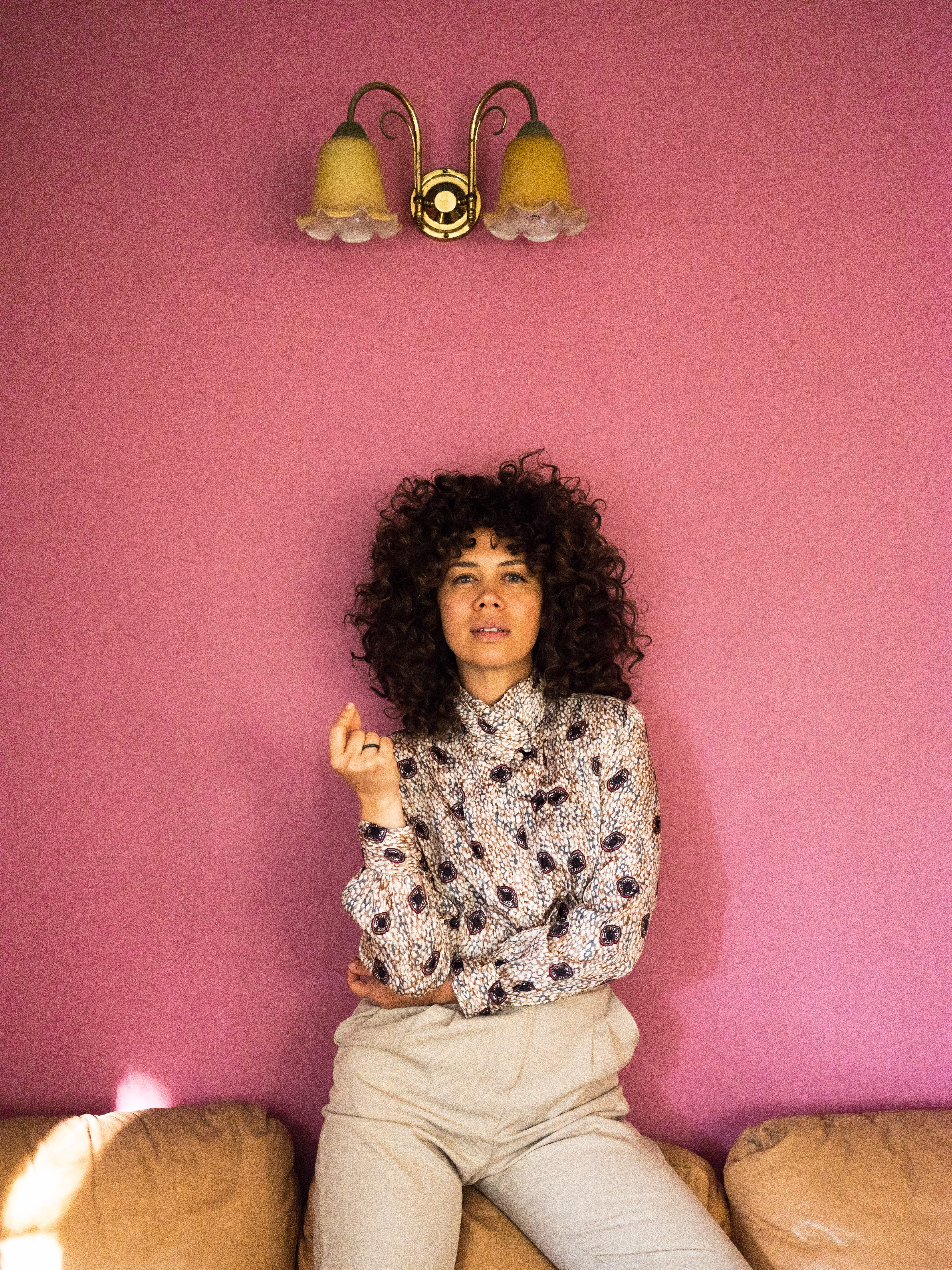 Portrait shot at home against pink wall with lampshade above.